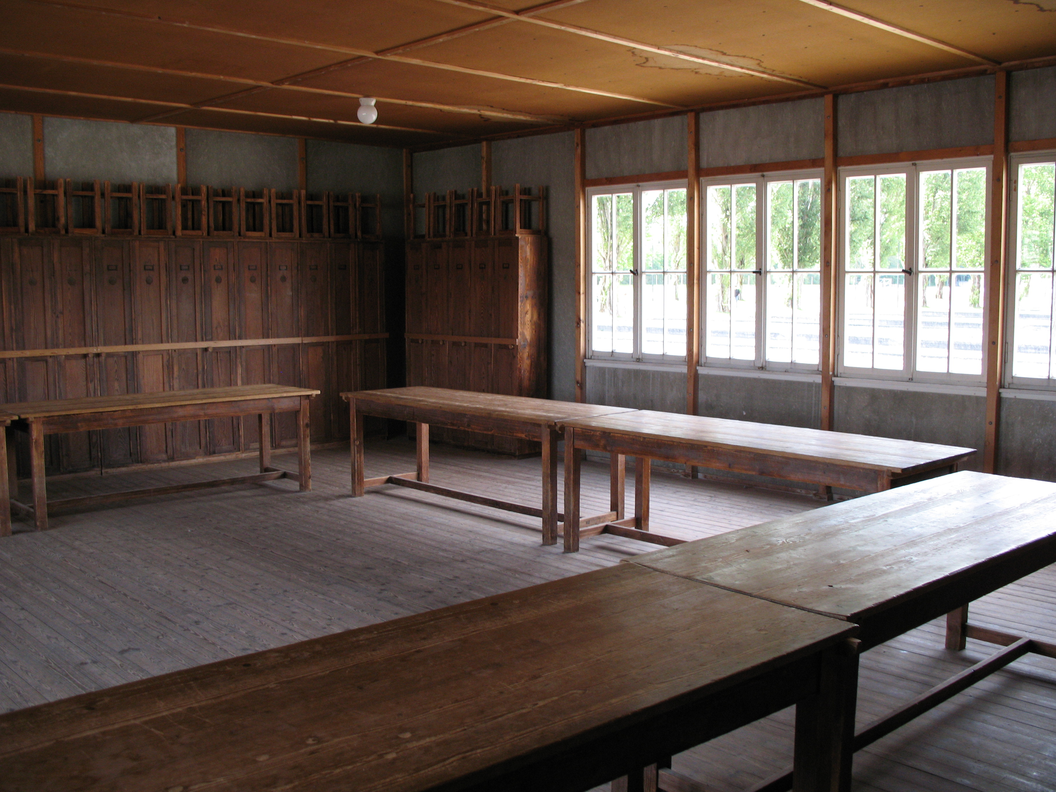 Prisoner's bunks, Dachau Concentration CampDachau, Germany - Google Maps - Google Earth